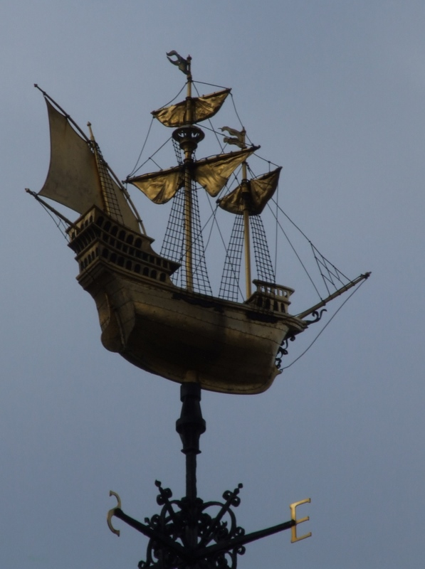 Ship on top of 2 Temple Place on the Embankment in London. This was commissioned by Lord Astor the then owner of this building known as "Astor House". It is set high above the machicolated parapets of the building and is a representation of the caravel in which Columbus discovered America. It is the work of J.Starkie Gardner, the well-known English metal worker. Starkie Gardner was responsible for all the metalwork both inside and outside of the building. The ship is in beaten copper